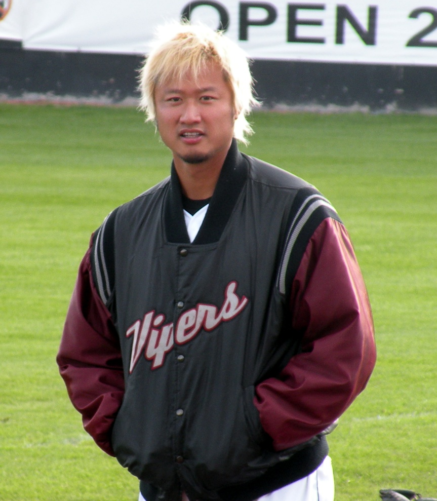 Former Major League Baseball player Mac Suzuki during a Calgary Vipers baseball game.